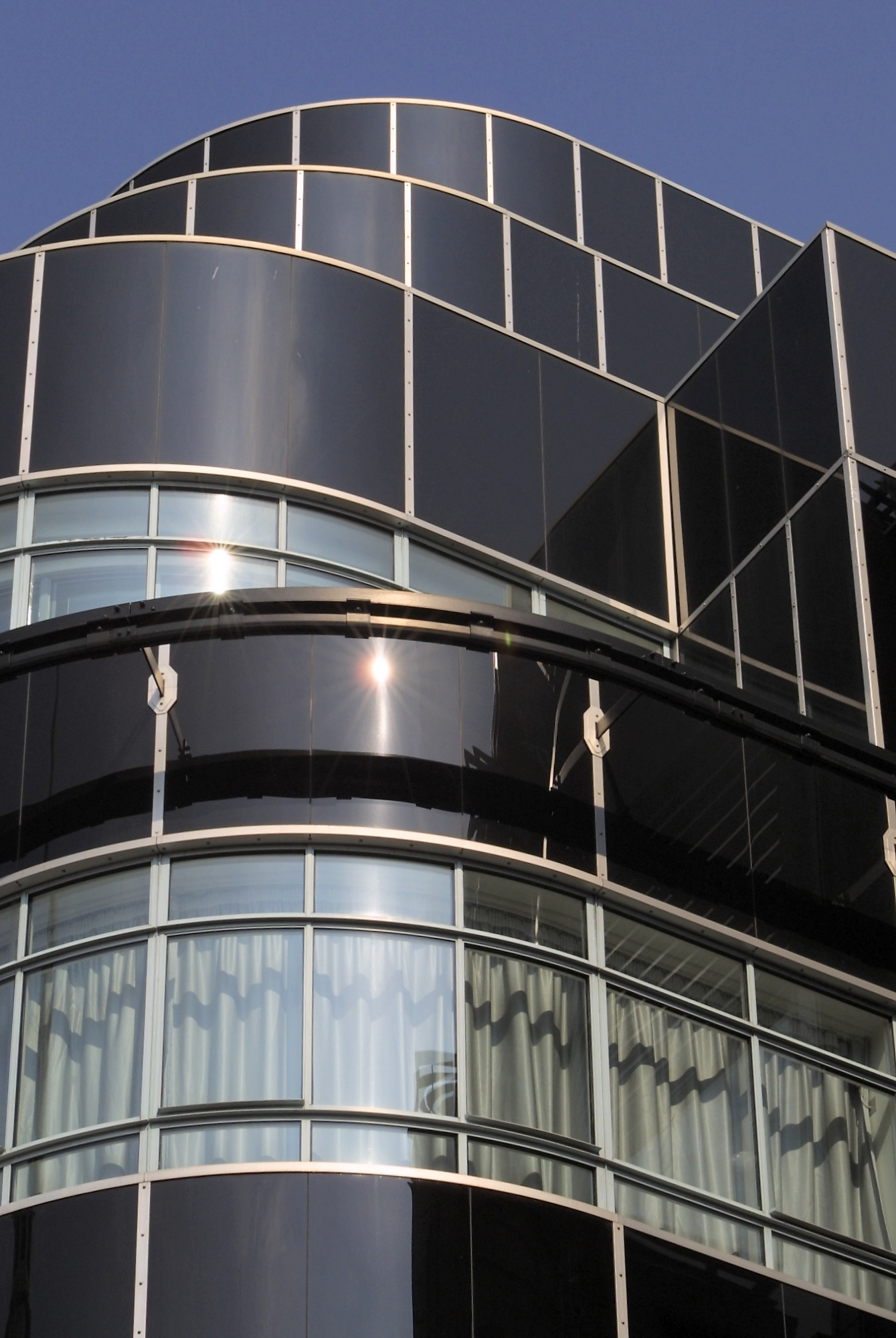 A view of the Streamline Moderne architecture of the (former) Daily Express building on Fleet Street — London. The image was taken with a Canon EOS D30 with a Sigma 70-300mm lens.